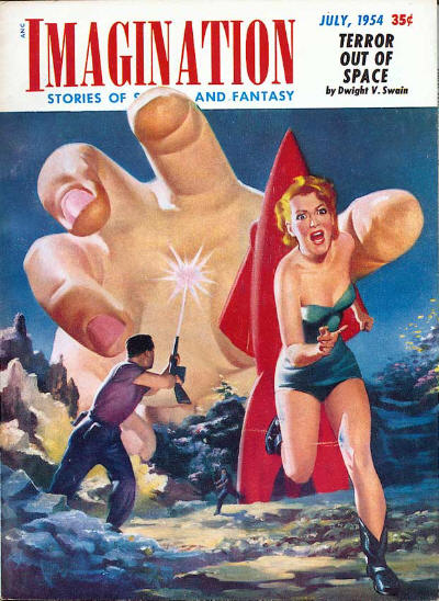 Cover of Imagination, July 1953